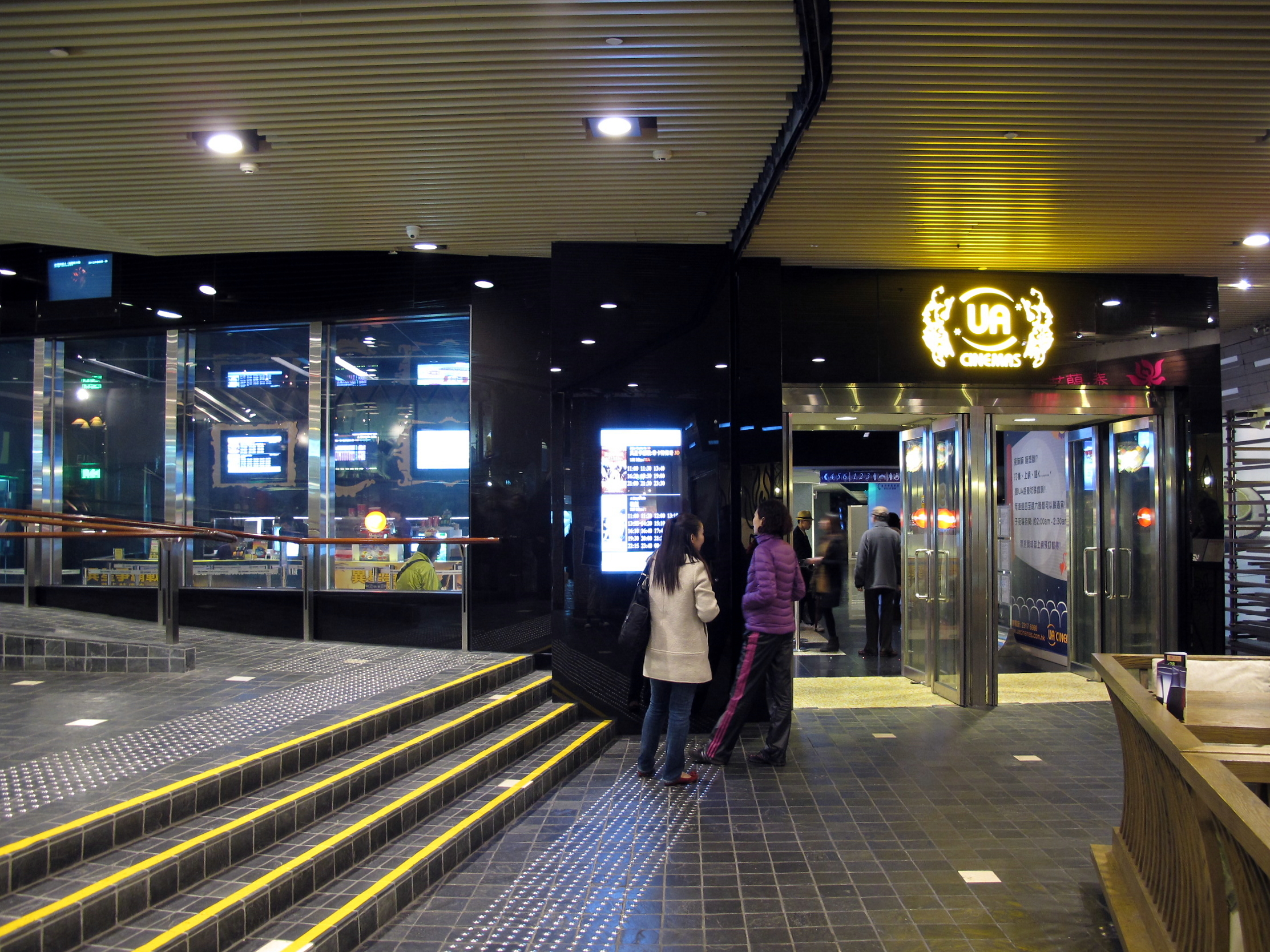 HK Langham Place UA Cinema (later renamed Cinema City, Langham Place)